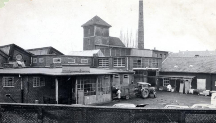 Overview on the Slaughterhouse in Soest